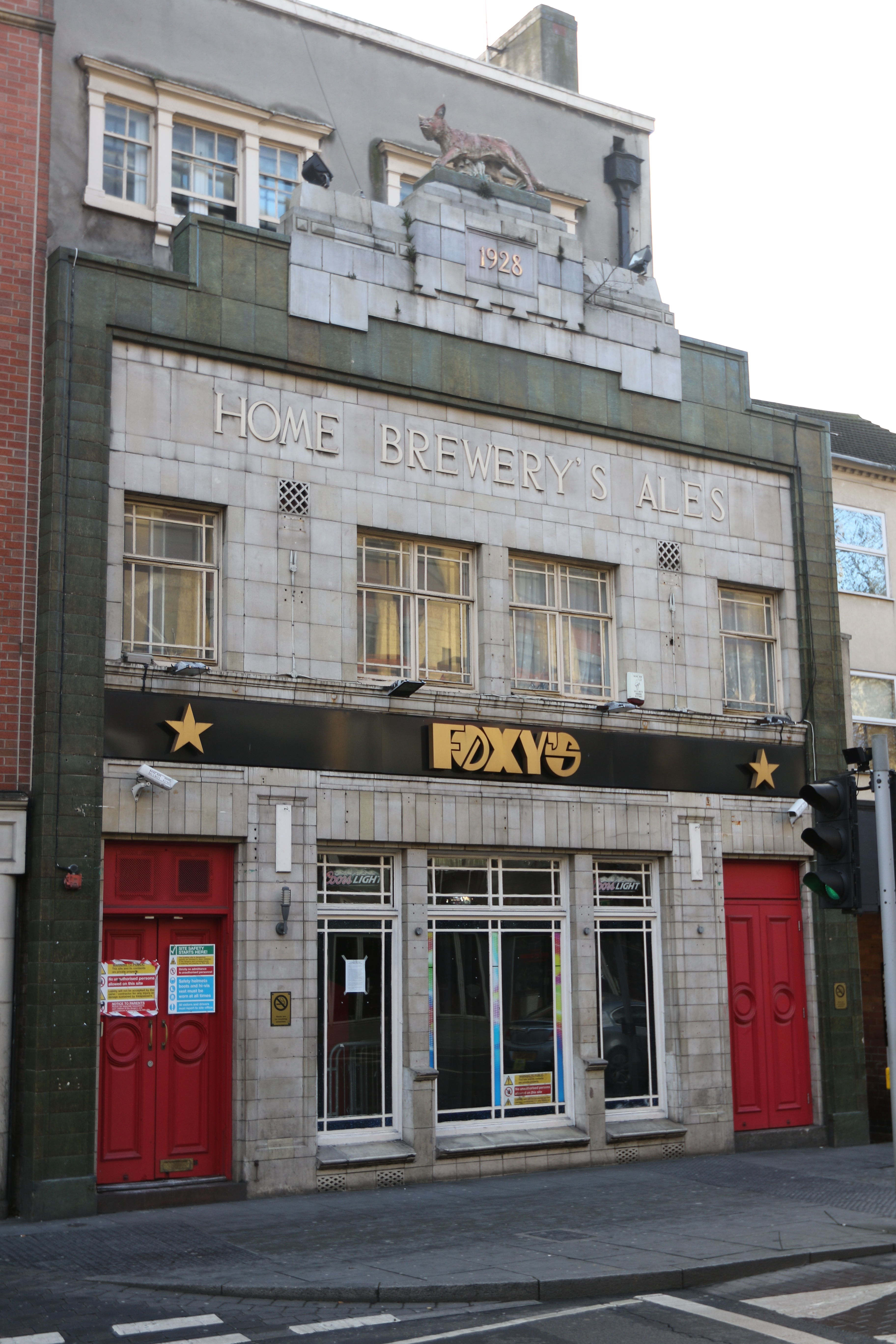 Rebuilt by the Home Brewery Company 1928